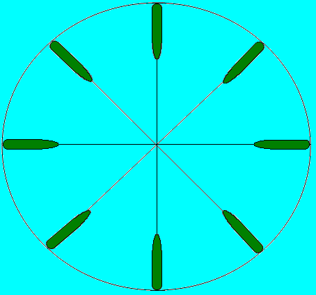 Anchorage circle.